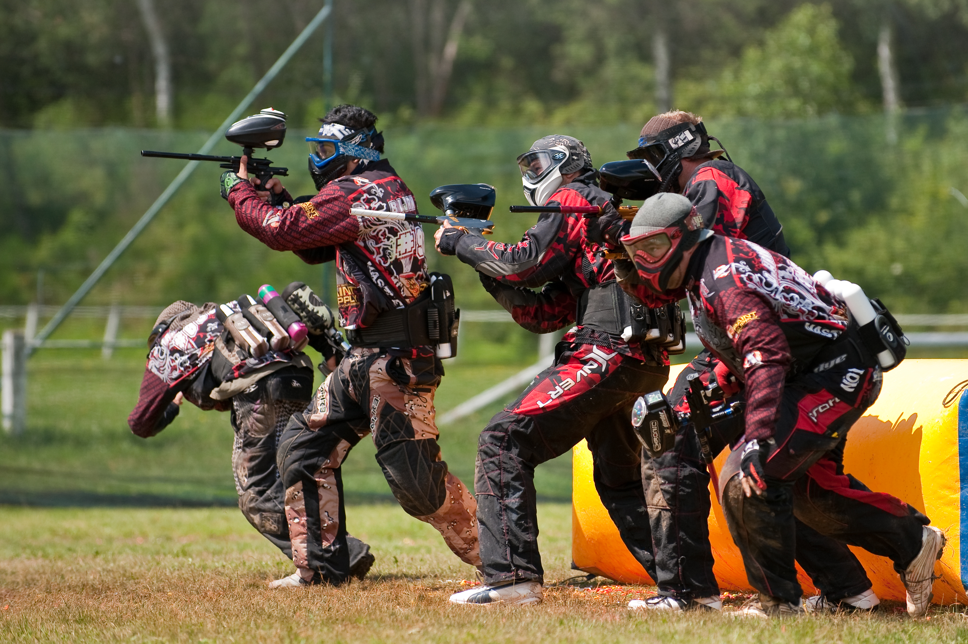 Sup'Air players break out